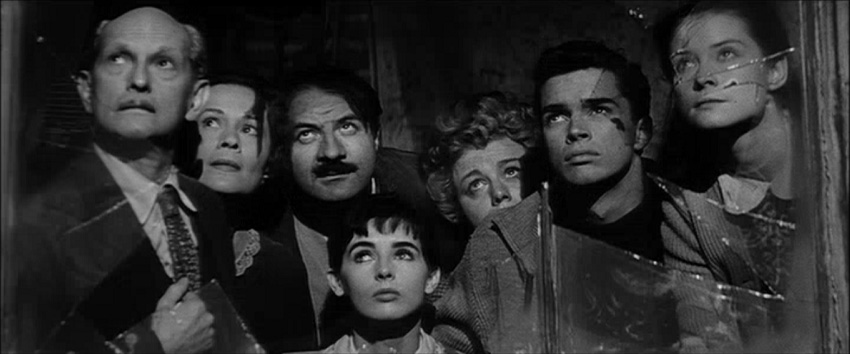 Screenshot of the US trailer of the film The Diary of Anne Frank (1959).